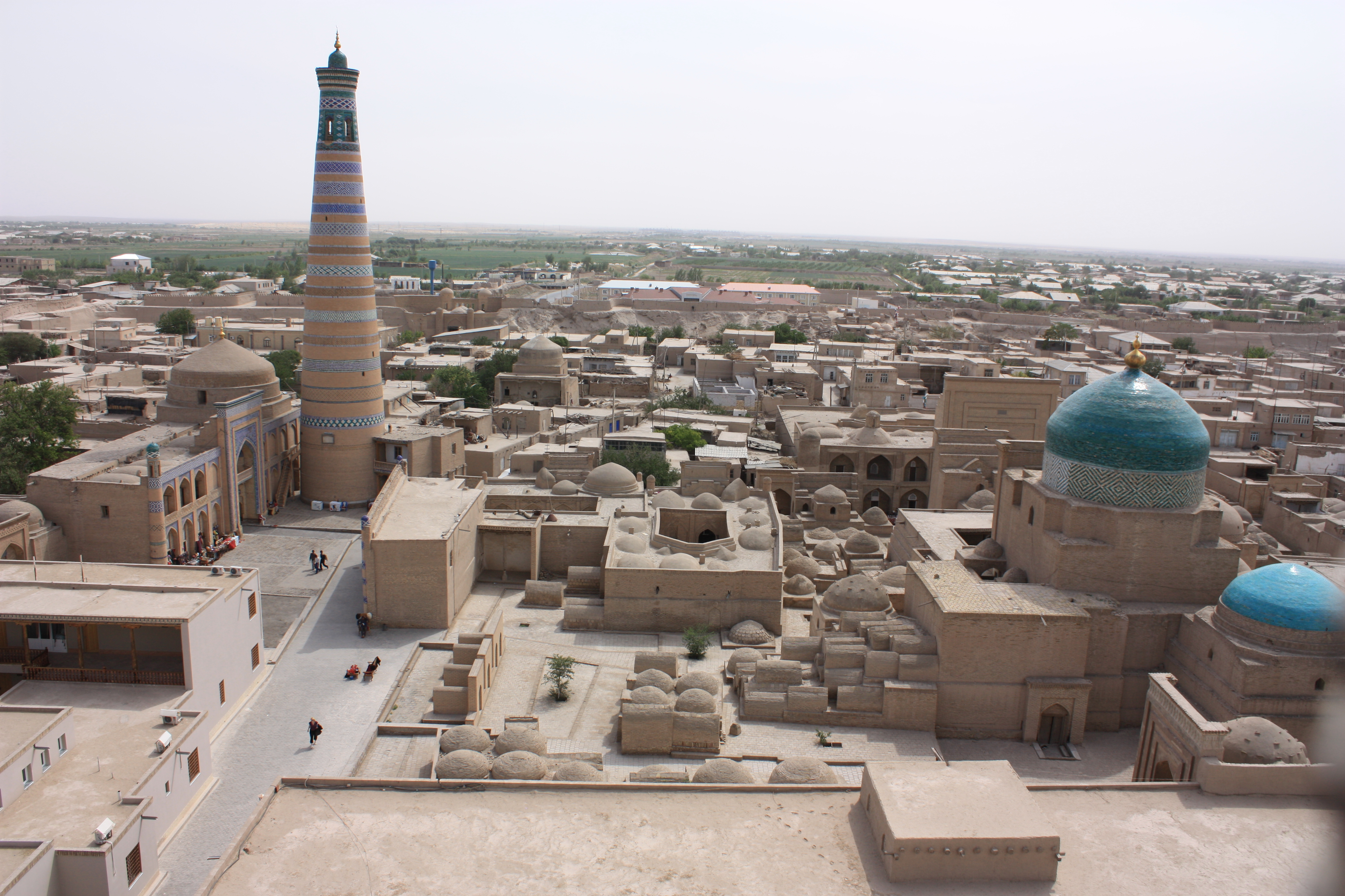 Khiva, view from Juma Minaret